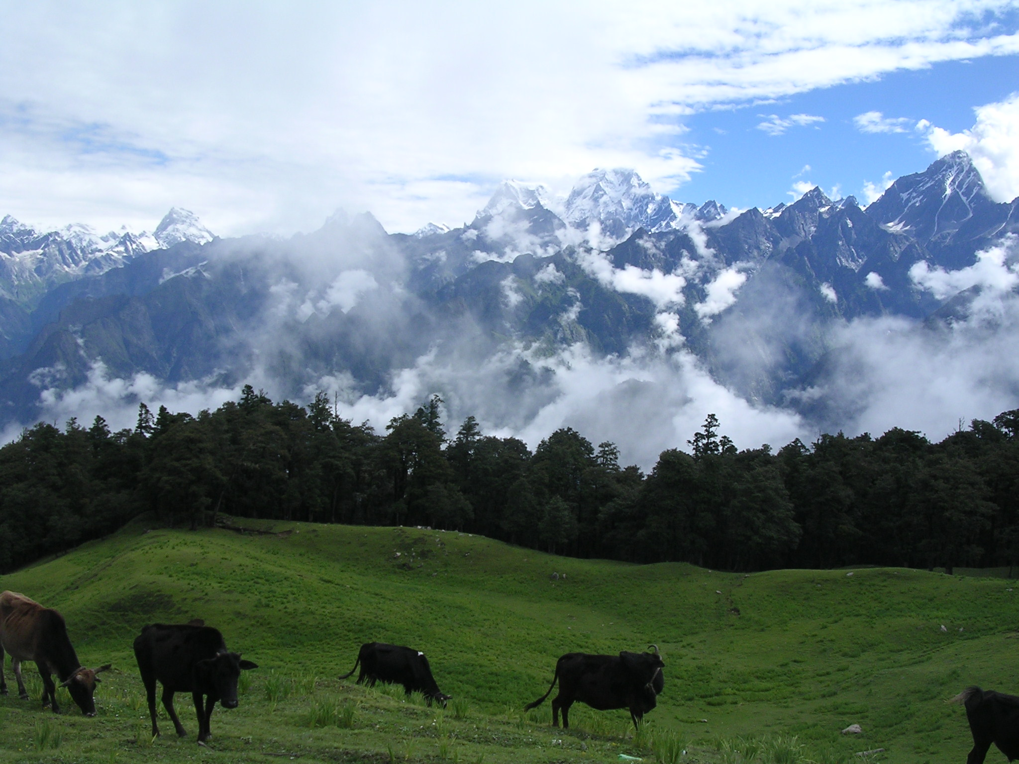 View of Himalayas from Auli